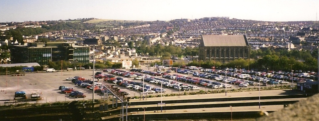 General view of the area now covered by the New England Quarter, a large mixed-use development next to Brighton railway station in the City of Brighton and Hove, England. This photo (scanned from the original) was taken in 1996 from Howard Place in the West Hill area of the city. Dominating the view is the station car park. Above the tall pole at the end of the station platform is St Martin's Church; the large building to the right of centre is St Bartholomew's Church